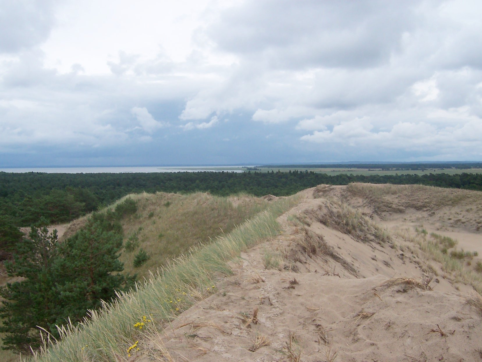 Western part of lake Łebsko seen from sand dunes at Słowiński Park Narodowy (National Park) near the Baltic sea coast.